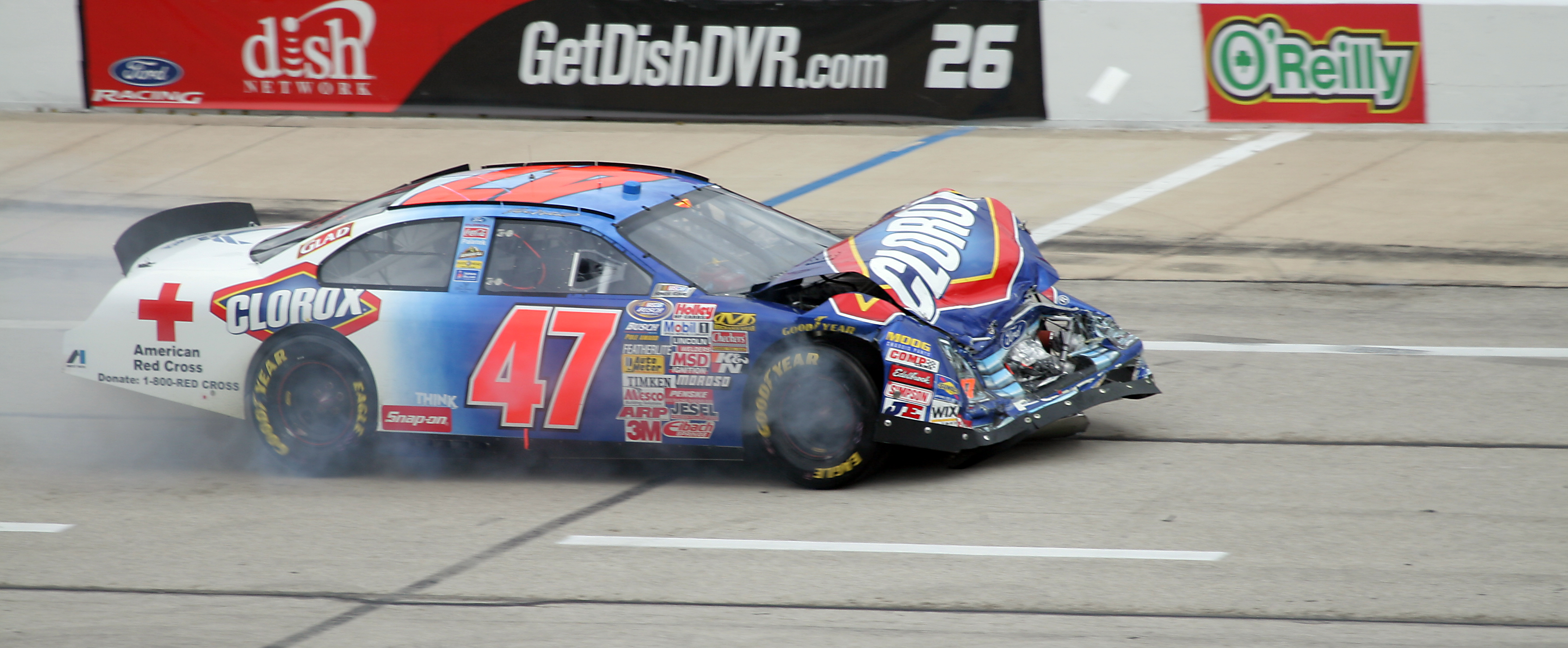 Jon Wood got caught up in one of the most unfortunate wrecks of the afternoon.